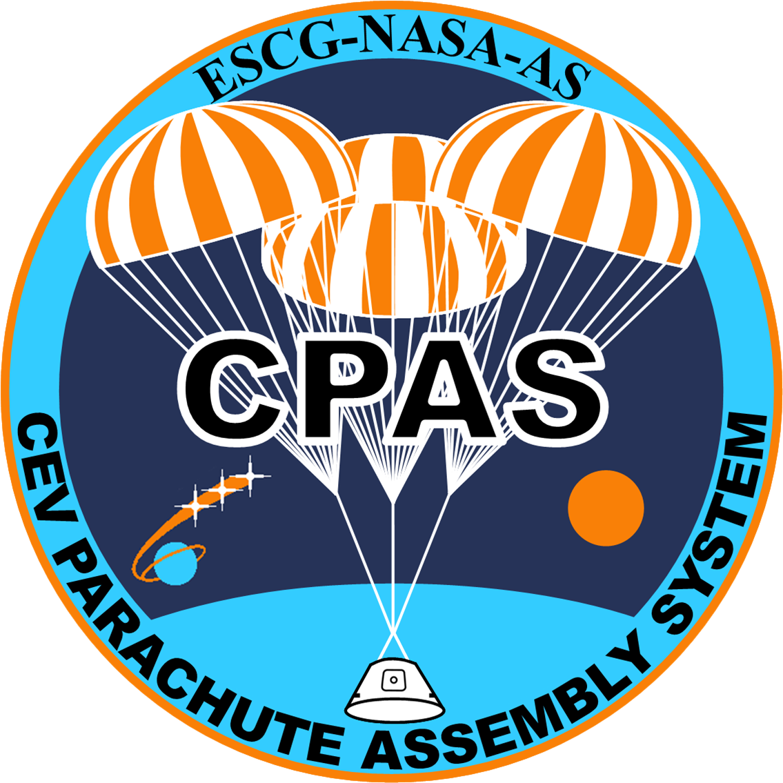 Logo for the CEV Parachute Assembly System (CPAS) project. Jacobs Engineering through their Engineering and Science Contract Group (ESCG) combined with NASA and Airborne Systems North America developed the earth landing system for the Orion spacecraft.